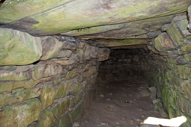 Inside Raitts Cave Showing the stone built walls with roof of large stone slabs. A souterrain near Lynchat which dates to the later Iron Age (around AD 100 – 400). A stone built underground chamber, in a horseshoe shape, believed by archaeologists to have been used as a secure and cool storage chamber for food supplies. It was first excavated in 1835.